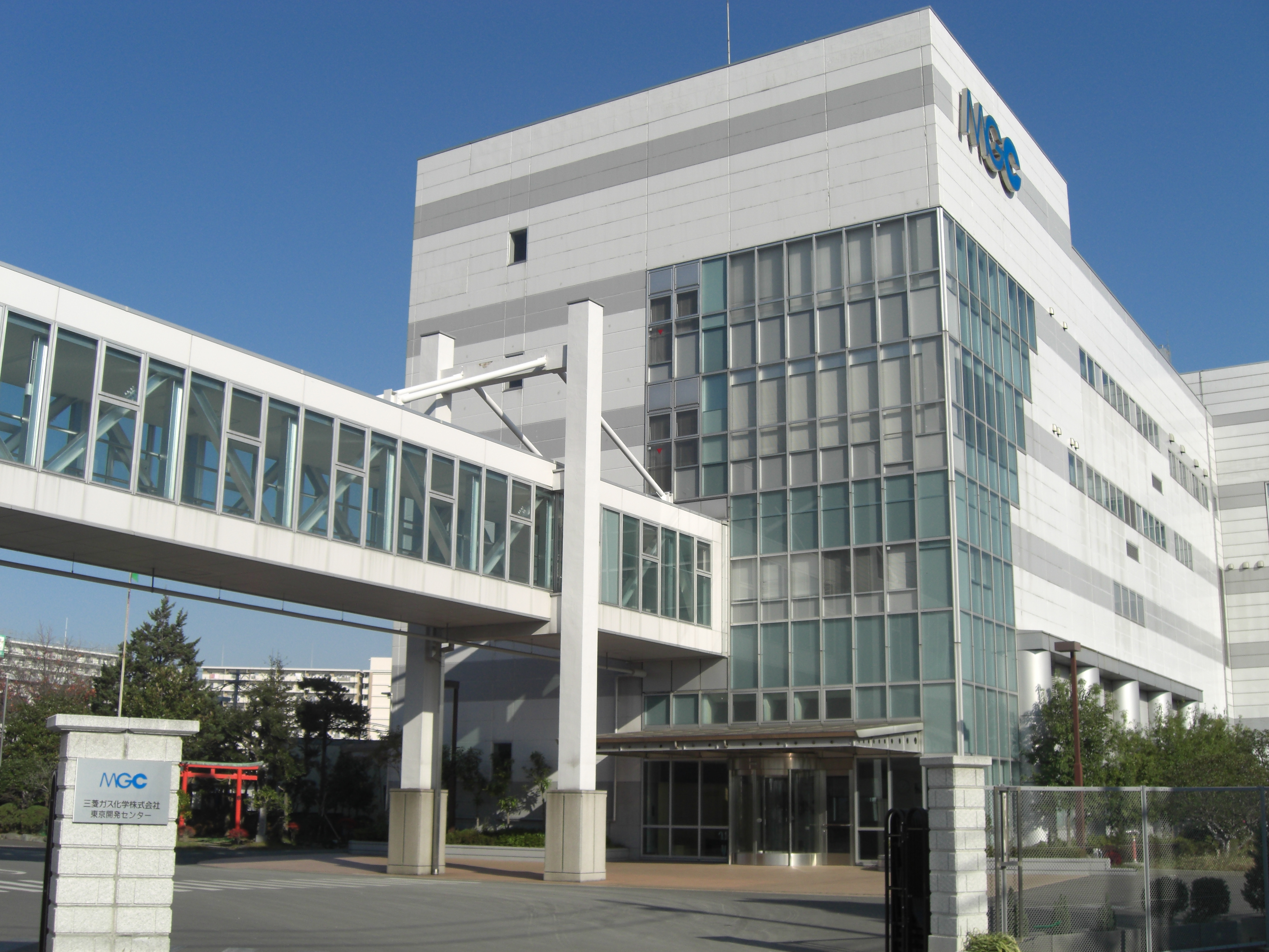 Mitsubishi gas chemical (Tokyo techno center)